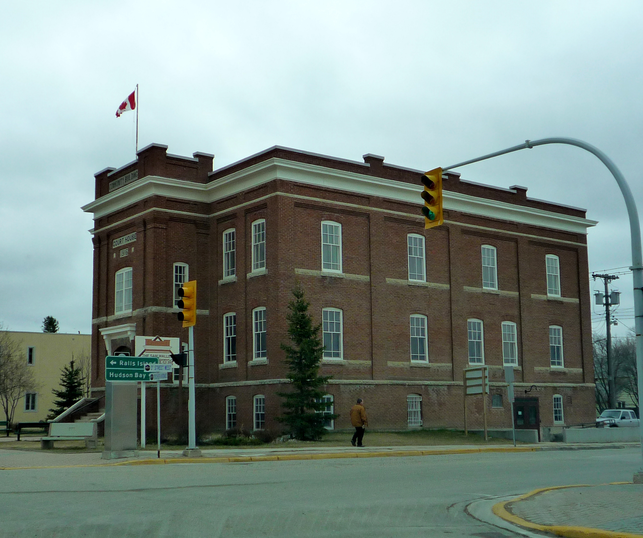 Sam Waller Museum, located in the old downtown court house, The Pas, Manitoba.